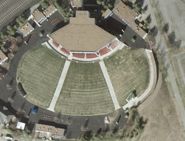 An overhead/aerial photograph of the Starwood Amphitheatre